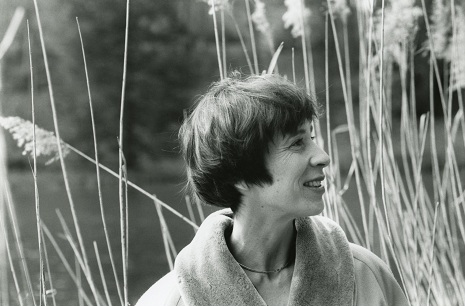 Caroline Lamarche with the reeds shot by Marie-Françoise Plissart